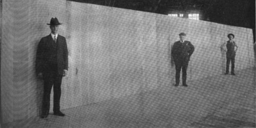 Haskelite plywood panel 636 x 88 inches, largest single veneer panel in the world.